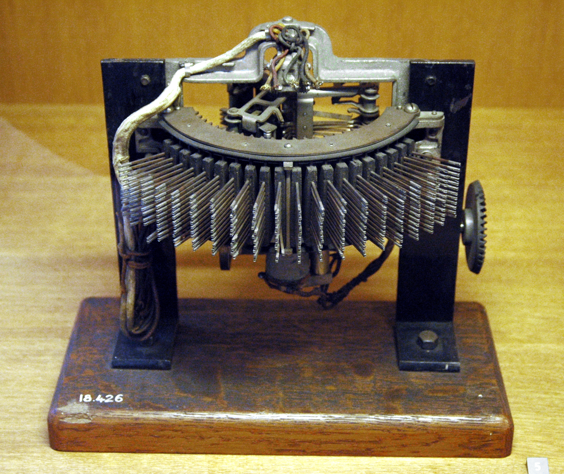 An example of a stepping switch or uniselector assembly. This item is in the collection of the Musée des Arts et Métiers, Paris.